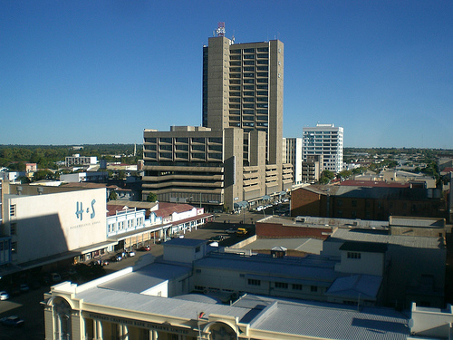 Picture taken from 10th Floor Pioneer House